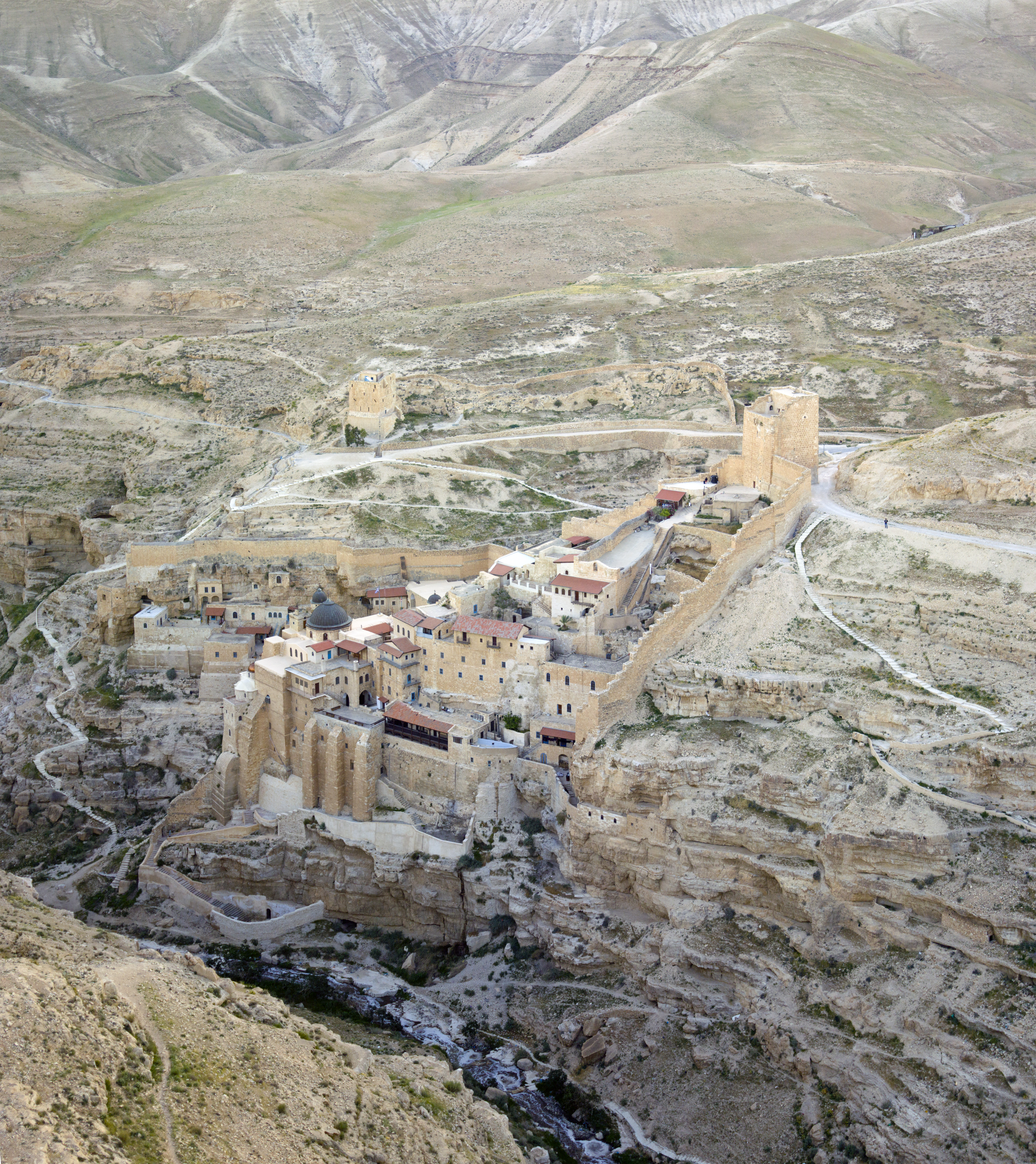 Aerial view of Mar Saba Monastery (Arabic: دير مار سابا; Hebrew: מנזר מר סבא; Greek: Λαύρα Σάββα τοῦ Ἡγιασμένου). A Greek Orthodox monastery located east of Bethlehem in the West Bank.